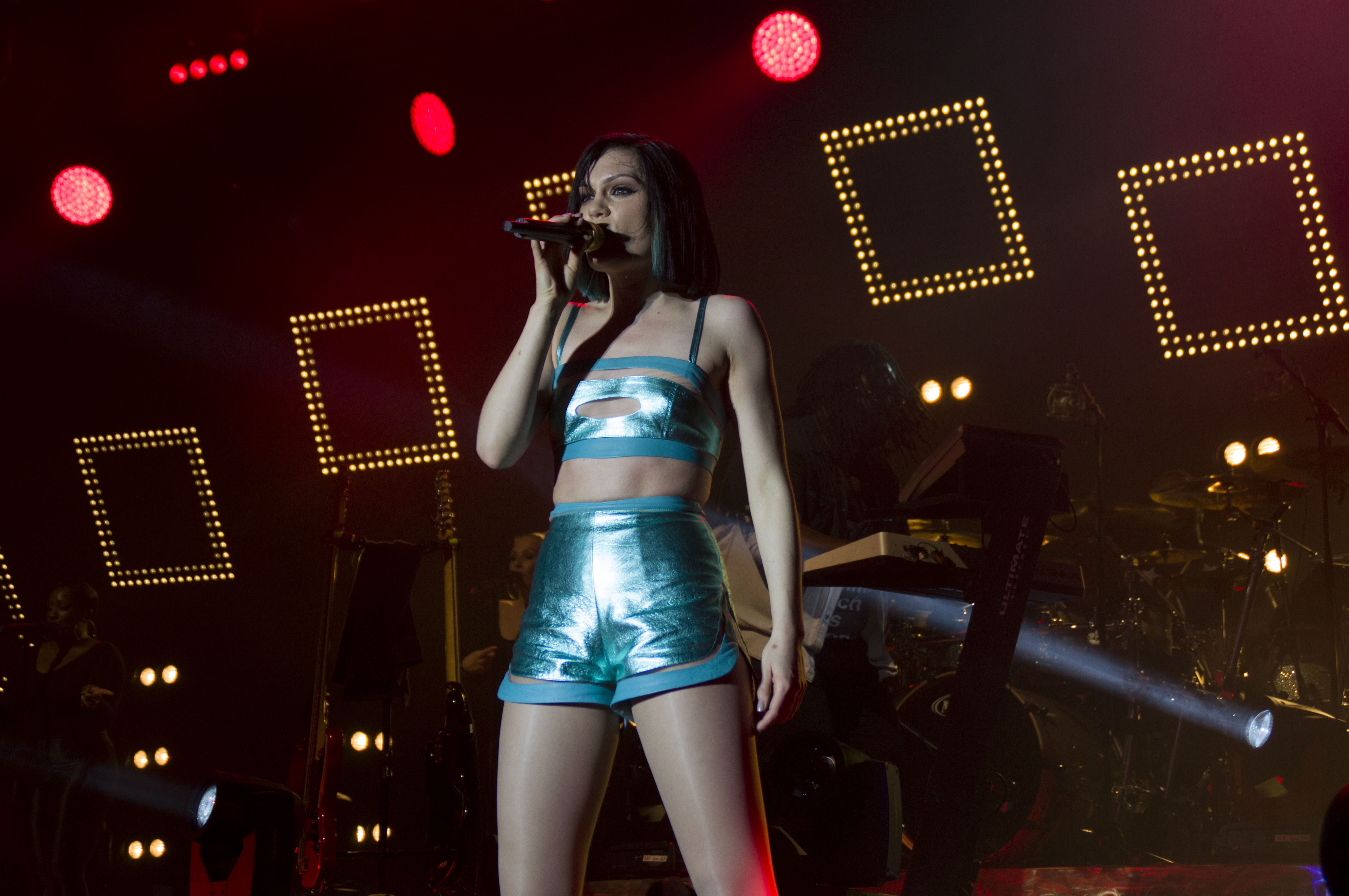 Jessie J at Pines Forest Live Event, June 13, 2014.